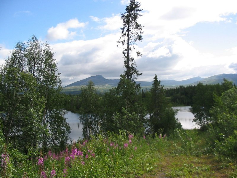 The mountain Dærga (Dearka in Sami language) and the lake Vektaren in Røyrvik municipality, Norway